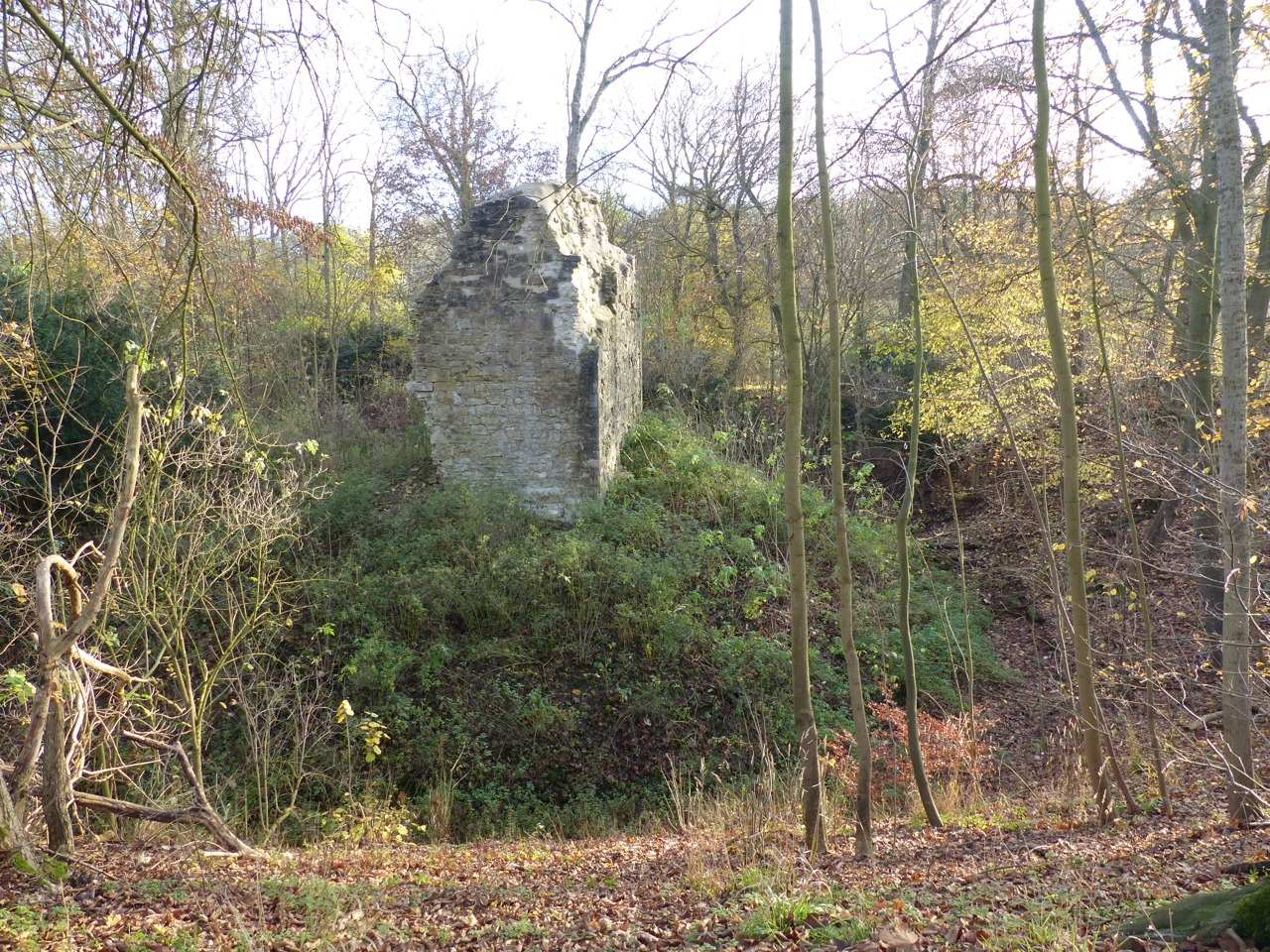 Ruin of castle Langeleben